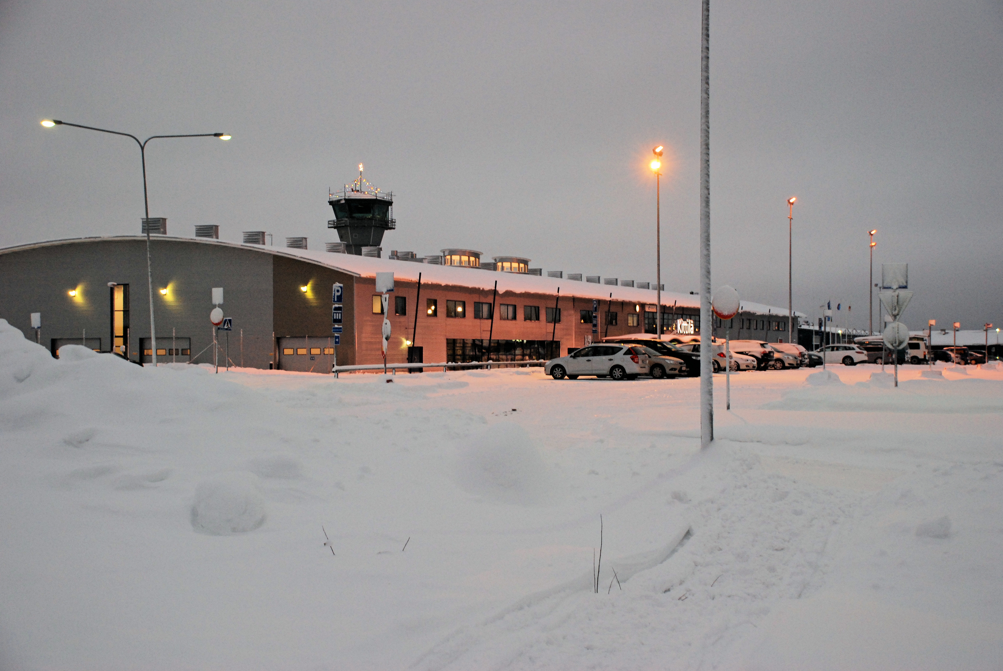 Terminal of the Kittilä Airport in Kittilä, Finland